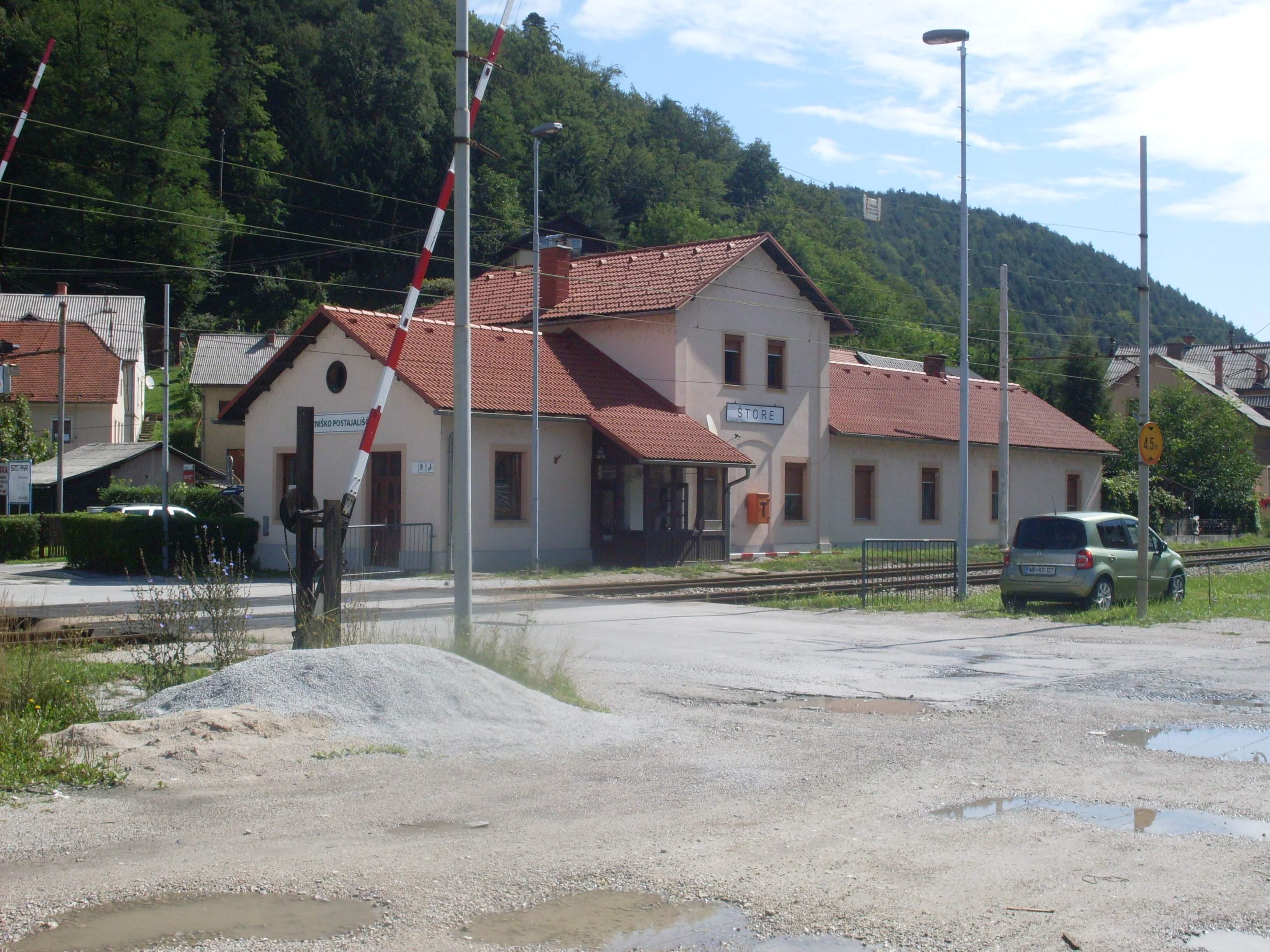 Railway halt in Štore